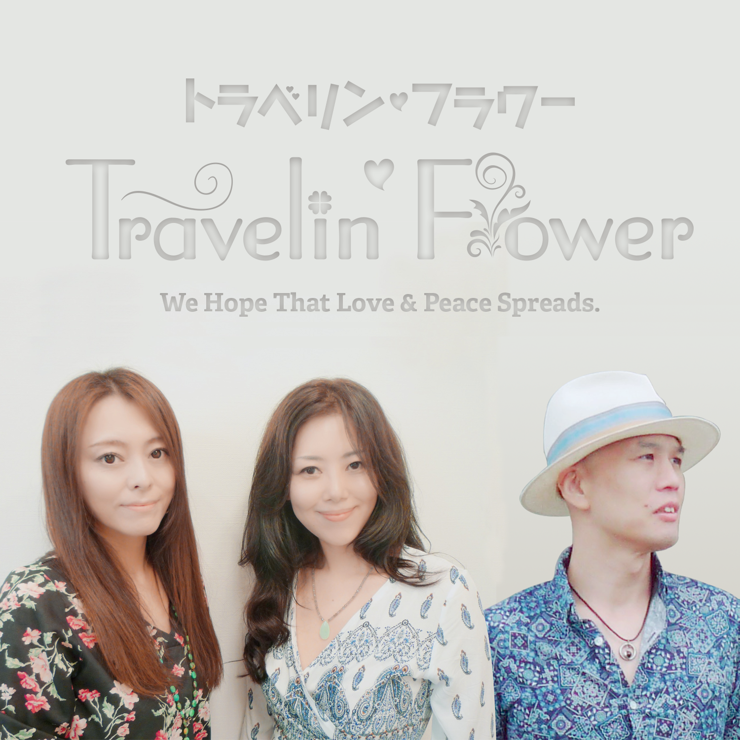 Haruko, Hiroko, Takeshi